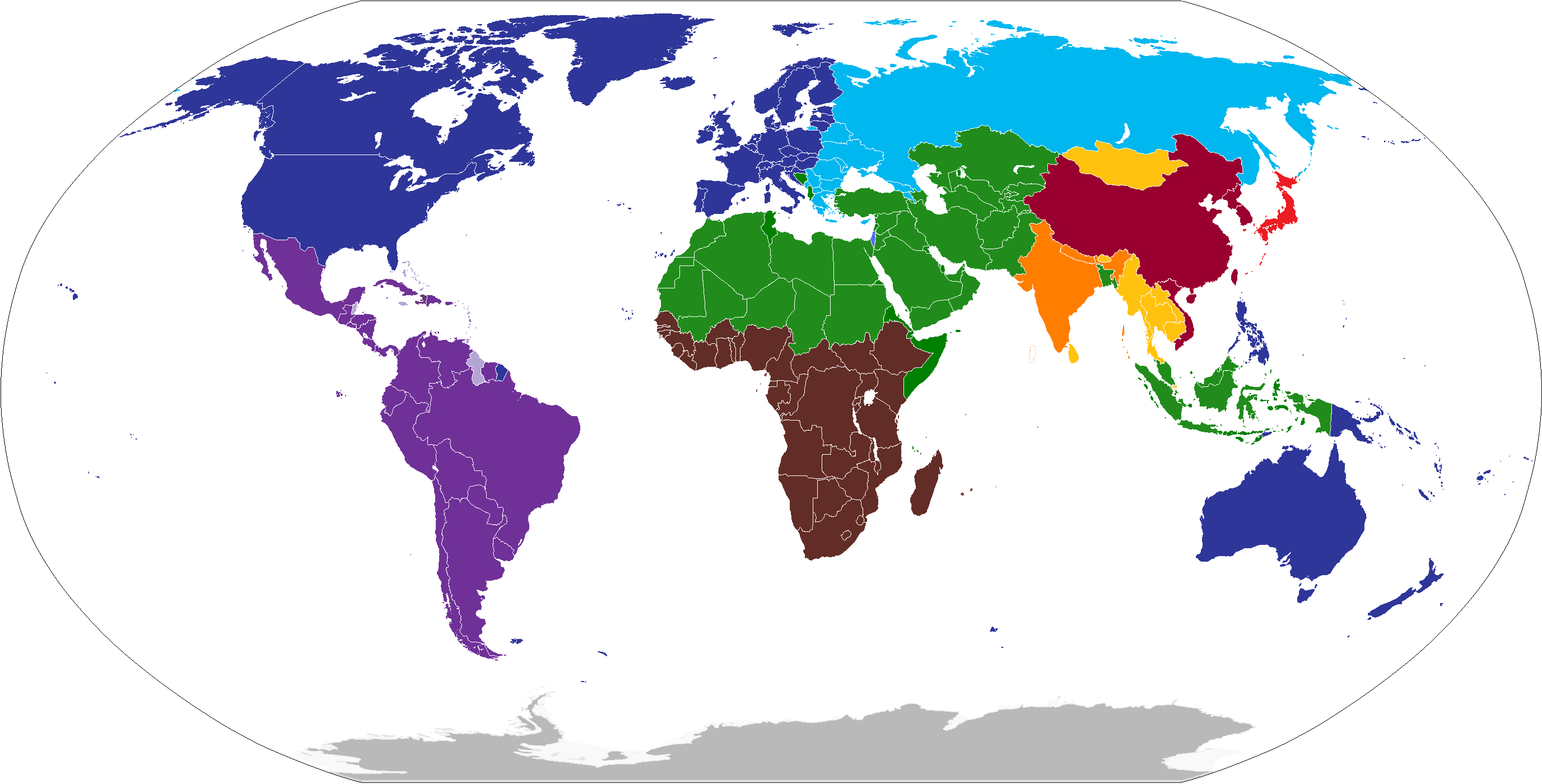 The world grouped by civilizations, according to Samuel P. Huntington's "The Clash of Civilizations". Orginally uploaded to the English Wikipedia, transferred to Commons by User:WikiFB3. In addition, South Sudan has been assigned to the relevant category. This country was not independent when Huntington's book was published.